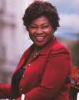 "Entwicklungshelferin Dr. Sylvie Nantcha wurde 1974 in Kamerun geboren" Aus CDU-Mitgliederwerbekampagne (Motivreihe mit drei Varianten, in der zwölf CDU-Mitglieder mit ihrem Namen für eine Parteimitgliedschaft werben. Ergänzend dazu gibt es ein Postkartenset).